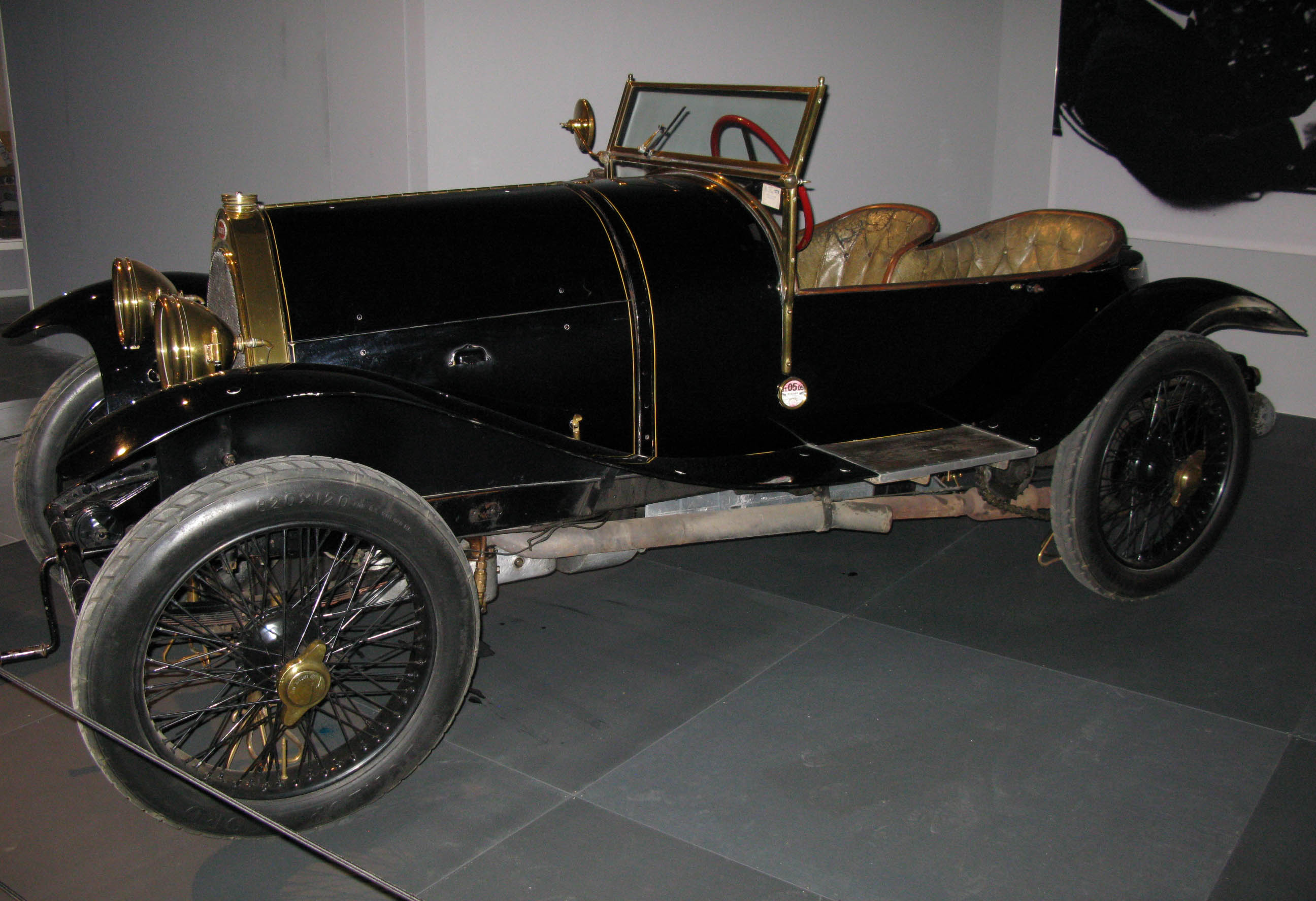 1913 Bugatti Type 18, christened "Black Bess" by second owner Ivy Cummings.